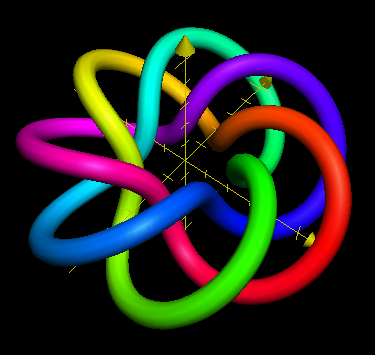 Wikipedia:Torus knot as rendered by Wikipedia:Apple Grapher.